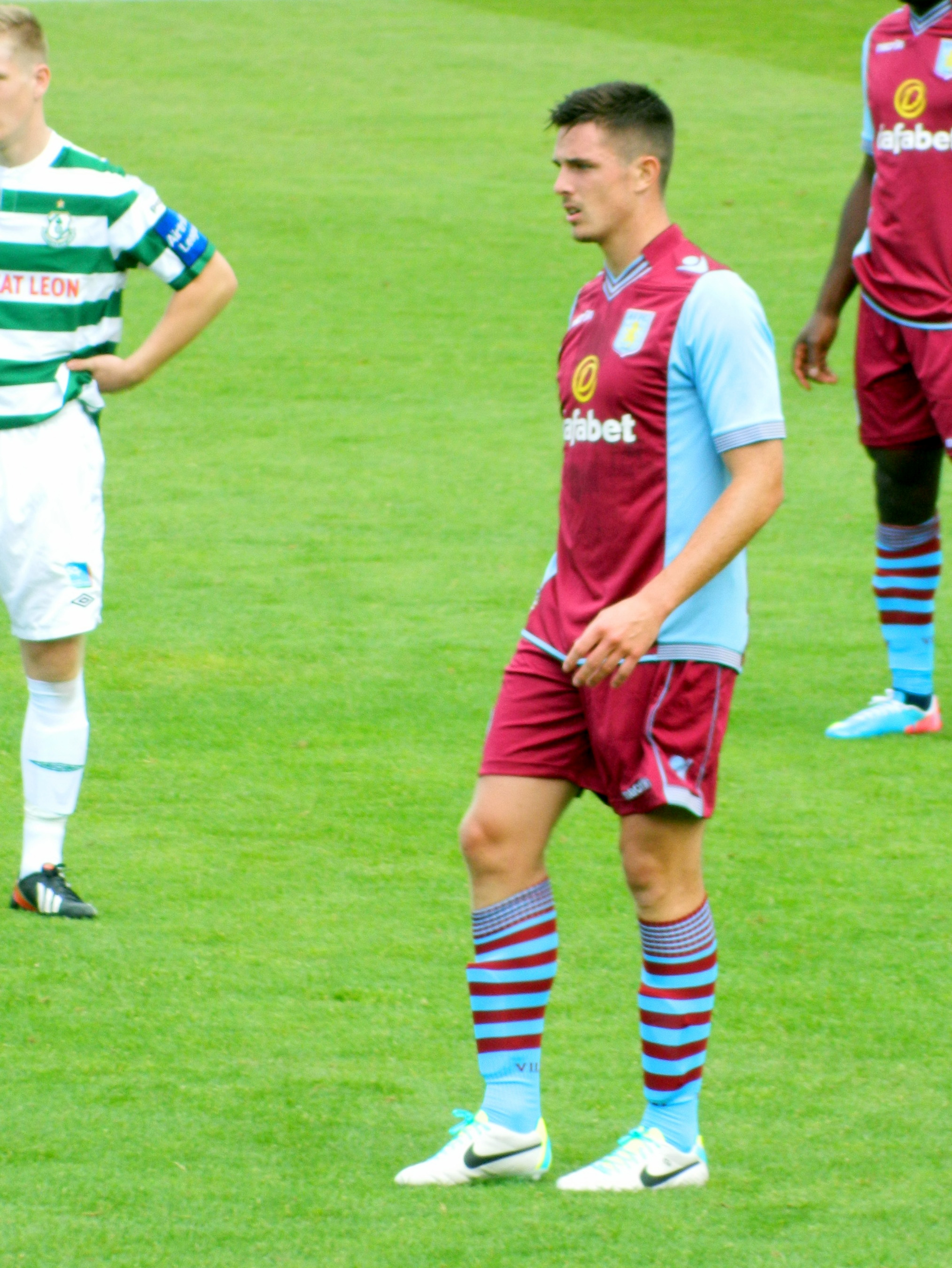 Ciaran Clark playing for Aston Villa v Shamrock Rovers 04/08/2013